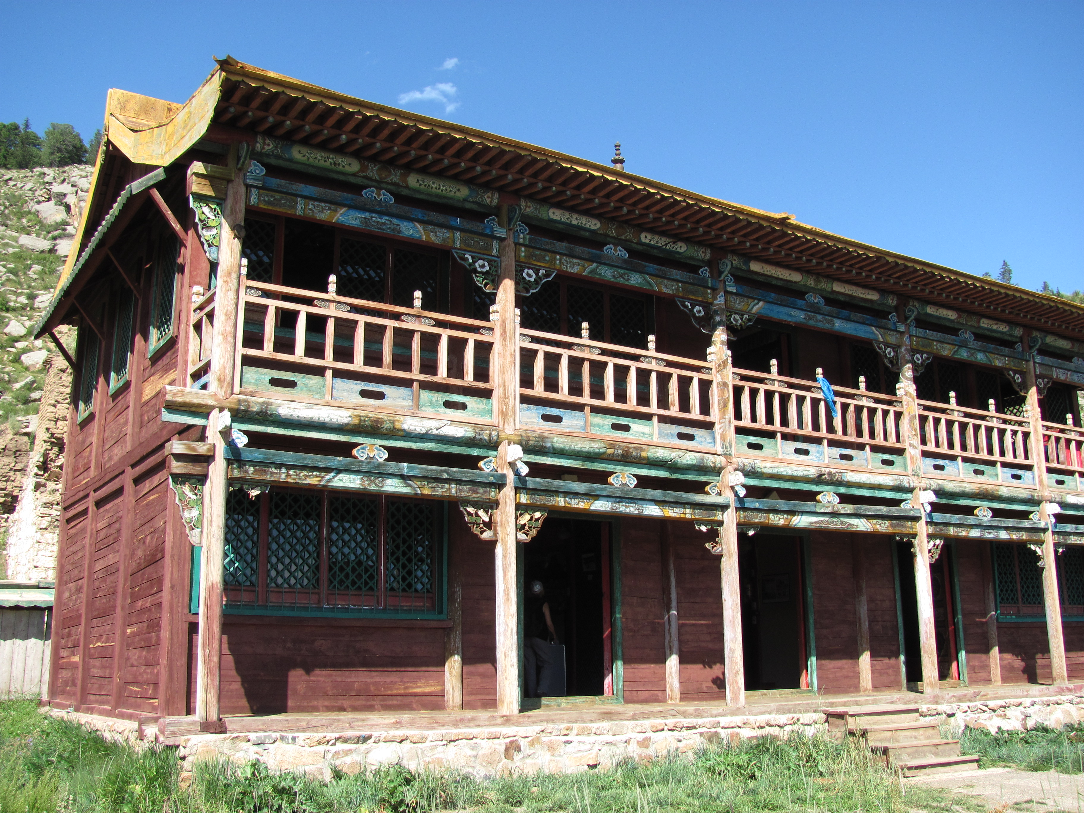 Main Temple, Mandzushirin Khiid, Zuunmod, Mongolia.